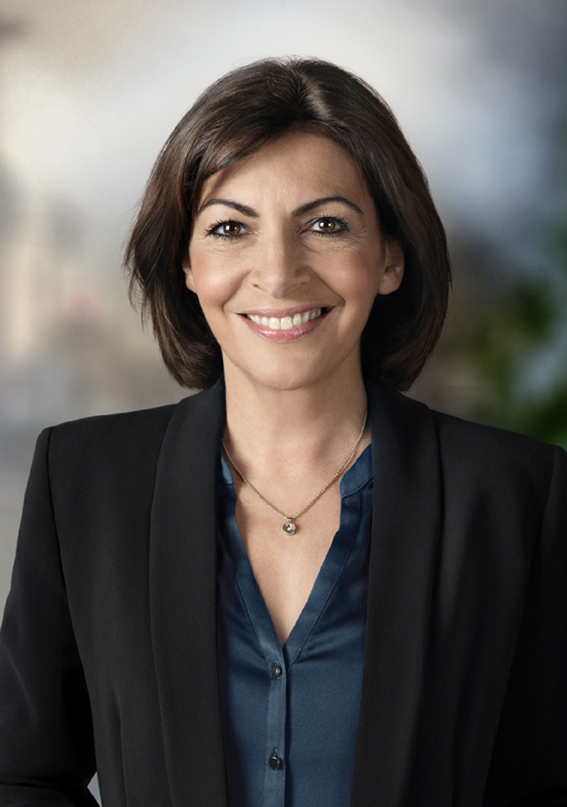 Portrait of Anne Hidalgo, first deputy Mayor of Paris and candidate in the next mayoral election, February 2014. Shot by Inès Dieleman.